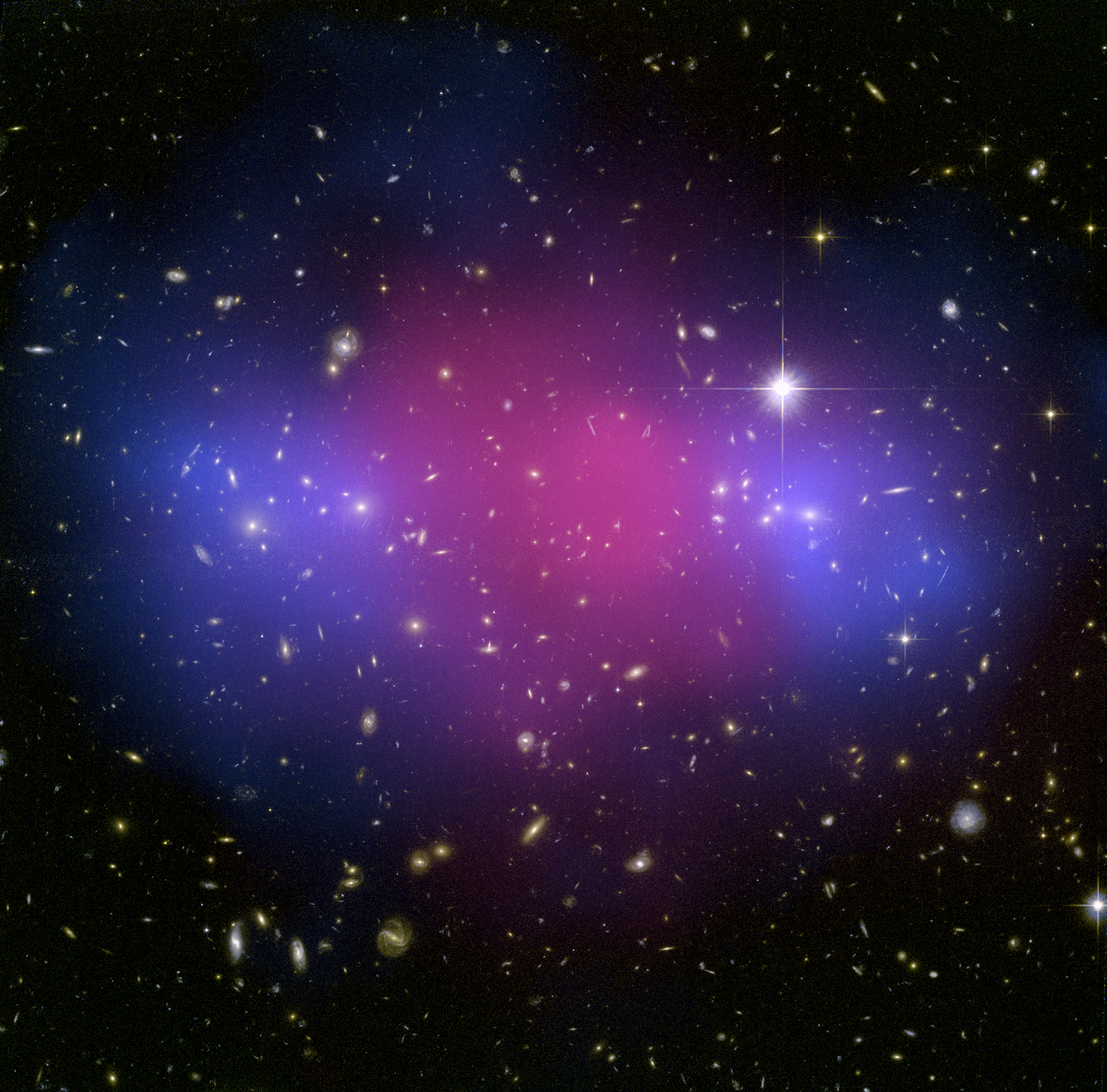 A powerful collision of galaxy clusters has been captured by NASA's Hubble Space Telescope and Chandra X-ray Observatory. This clash of clusters provides striking evidence for dark matter and insight into its properties. The observations of the cluster known as MACS J0025.4-1222 indicate that a titanic collision has separated the dark from ordinary matter and provide an independent confirmation of a similar effect detected previously in a target dubbed the Bullet Cluster. These new results show that the Bullet Cluster is not an anomalous case. MACS J0025 formed after an enormously energetic collision between two large clusters. Using visible-light images from Hubble, the team was able to infer the distribution of the total mass — dark and ordinary matter. Hubble was used to map the dark matter (colored in blue) using a technique known as gravitational lensing. The Chandra data enabled the astronomers to accurately map the position of the ordinary matter, mostly in the form of hot gas, which glows brightly in X-rays (pink). As the two clusters that formed MACS J0025 (each almost a whopping quadrillion times the mass of the Sun) merged at speeds of millions of miles per hour, the hot gas in the two clusters collided and slowed down, but the dark matter passed right through the smashup. The separation between the material shown in pink and blue therefore provides observational evidence for dark matter and supports the view that dark-matter particles interact with each other only very weakly or not at all, apart from the pull of gravity. The international team of astronomers in this study was led by Marusa Bradac of the University of California, Santa Barbara, and Steve Allen of the Kavli Institute for Particle Astrophysics and Cosmology at Stanford University and the Stanford Linear Accelerator Center (SLAC). Their results will appear in an upcoming issue of The Astrophysical Journal.